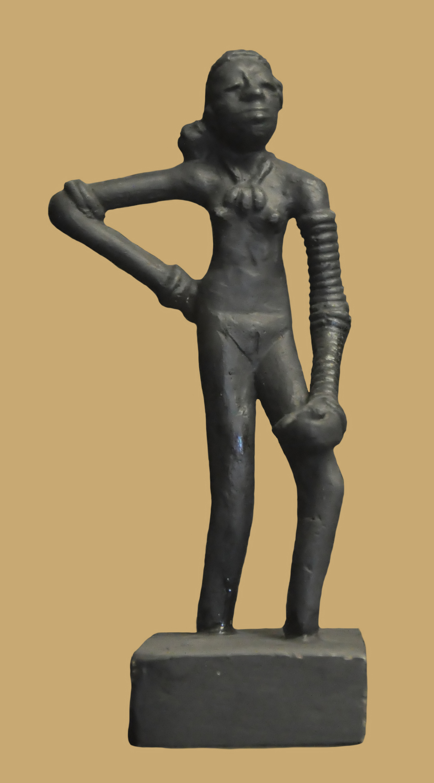 Replica of 'Dancing Girl' of Mohenjo-daro at Chhatrapati Shivaji Maharaj Vastu Sangrahalaya in Mumbai, India.